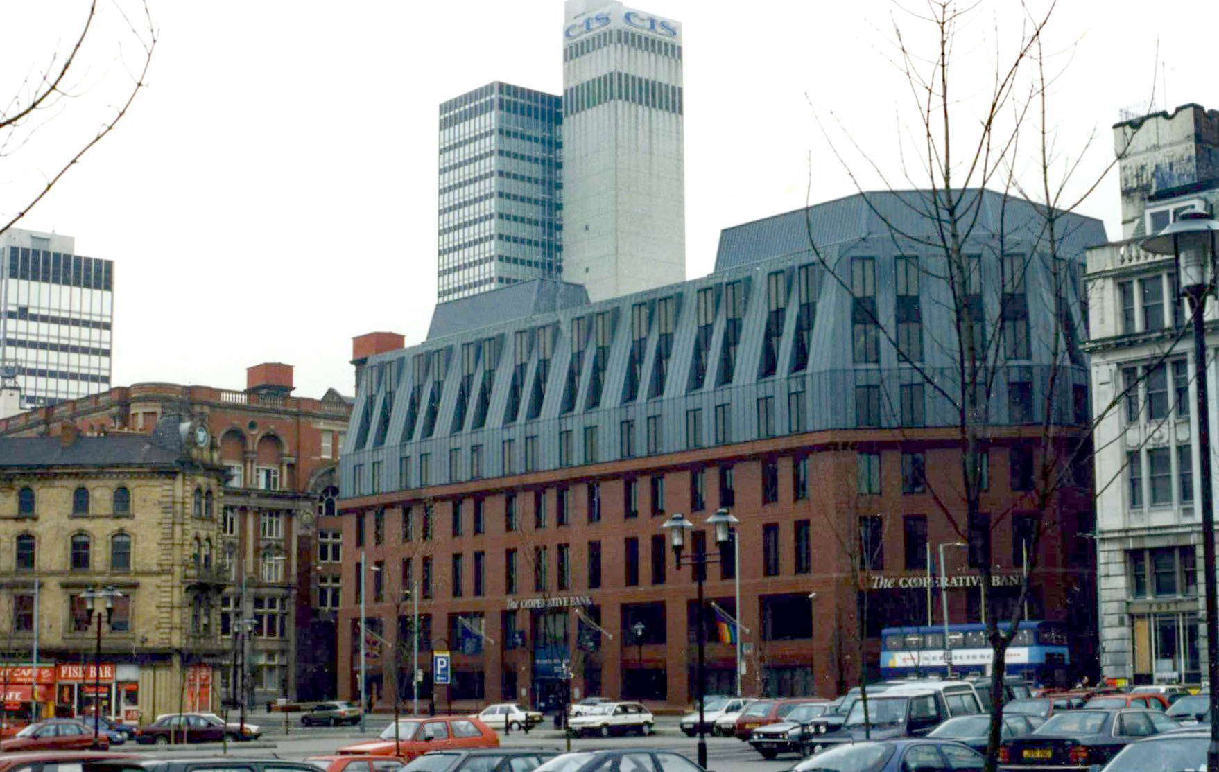 The Co-op Bank, Balloon Street with the twin towers of CIS and CWS (New Century House) behind.